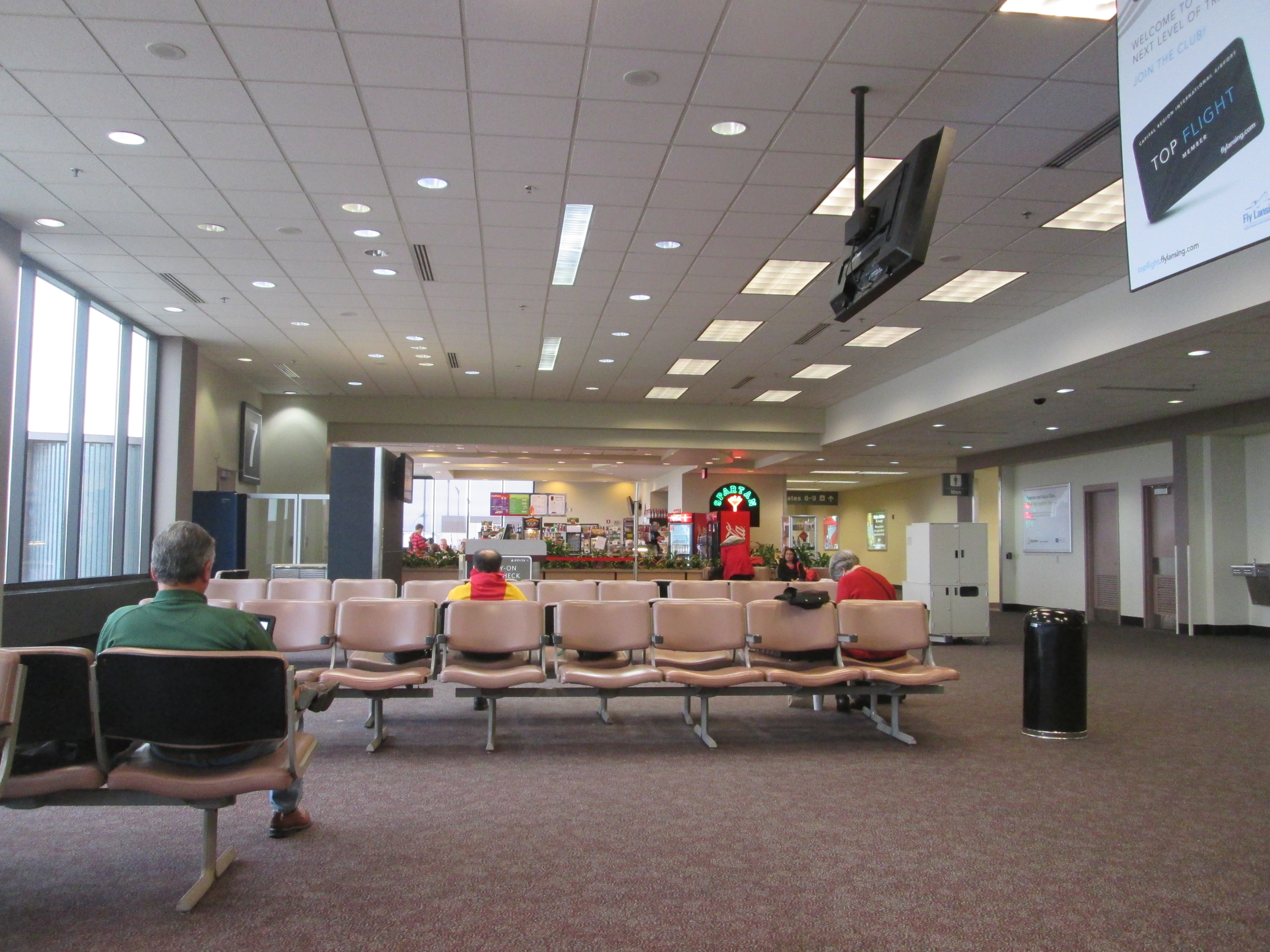 Airport, Lansing, Michigan, USA.